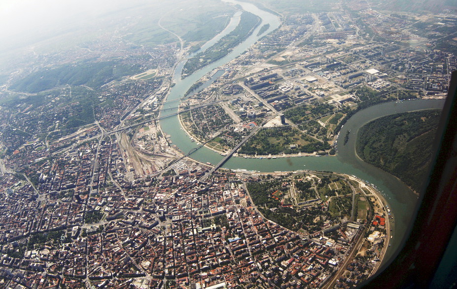 Belgrade from Air